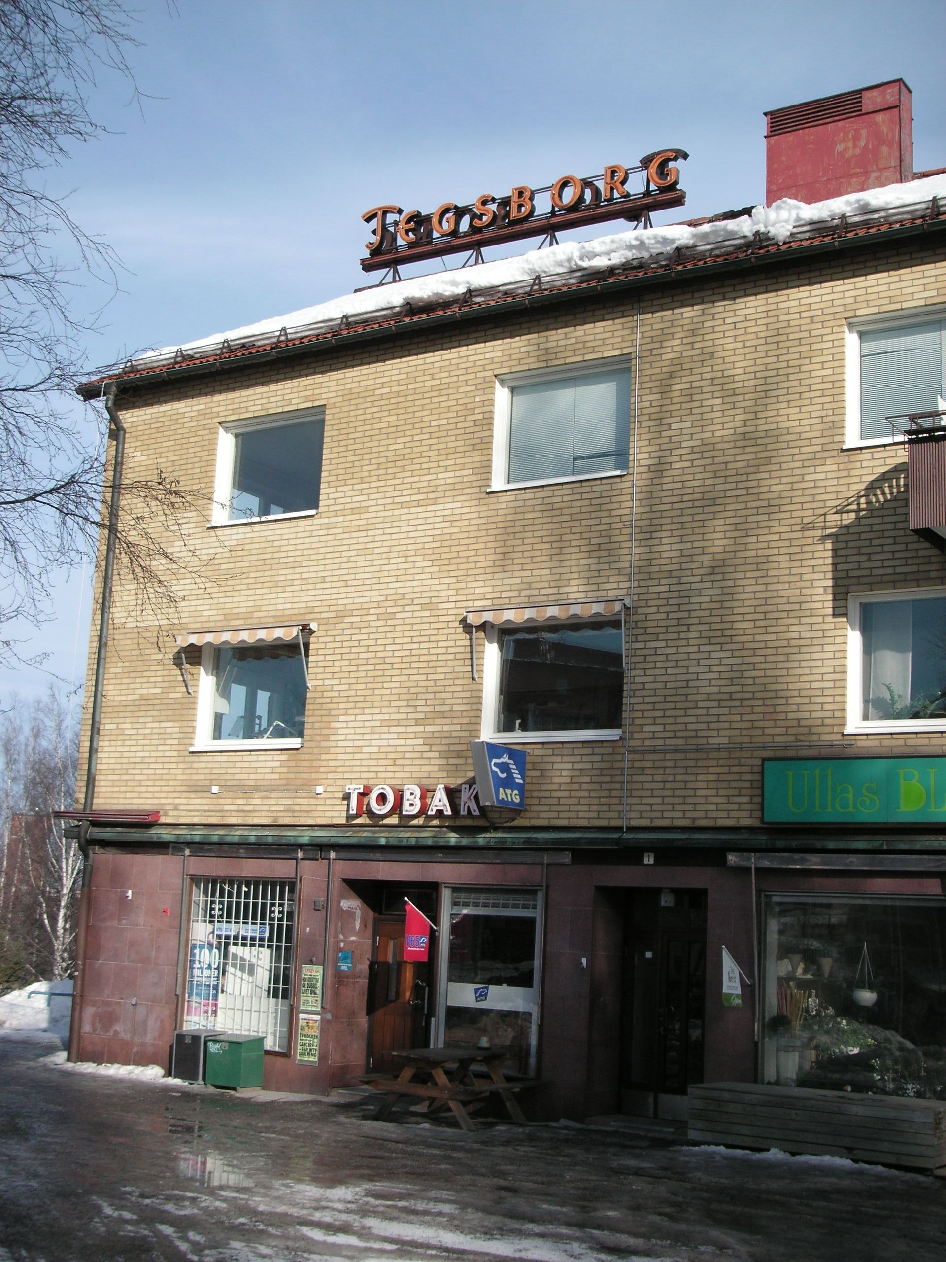 Tegsborg building in Umeå, Sweden.